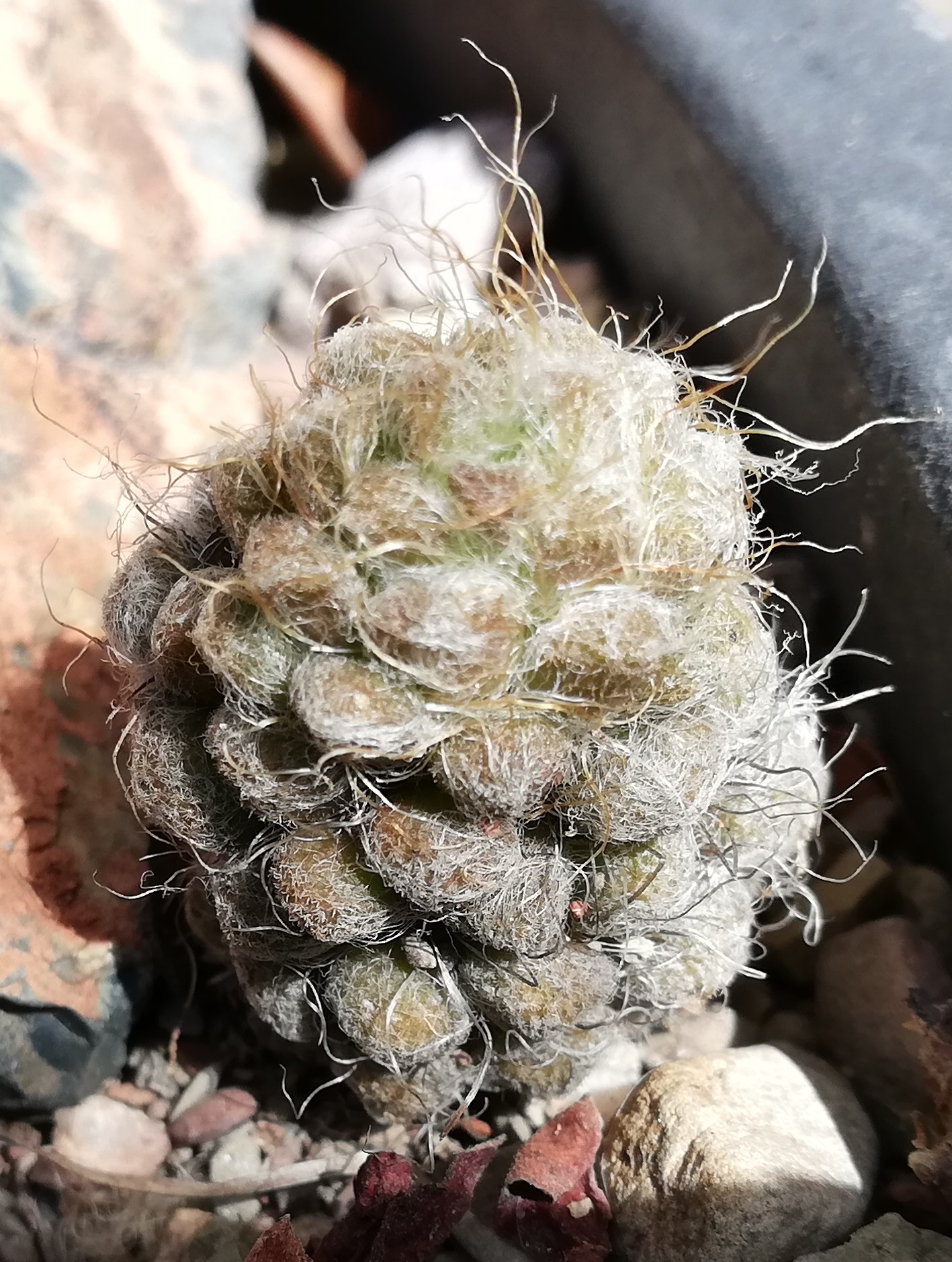 Anacampseros albidiflora - stem and leaf detail